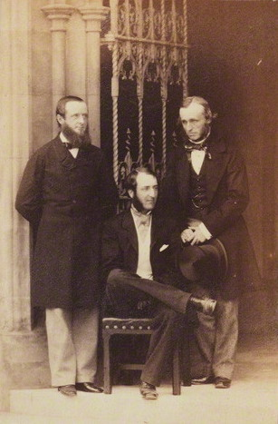 Francis Charles Hastings Russell, 9th Duke of Bedford; Sir Robert Nigel Fitzhardinge Kingscote; George William John Repton by Camille Silvy albumen print, 1860 3 3/8 in. x 2 1/4 in. (86 mm x 57 mm) image size Purchased, 1904 Photographs Collection NPG Ax50350